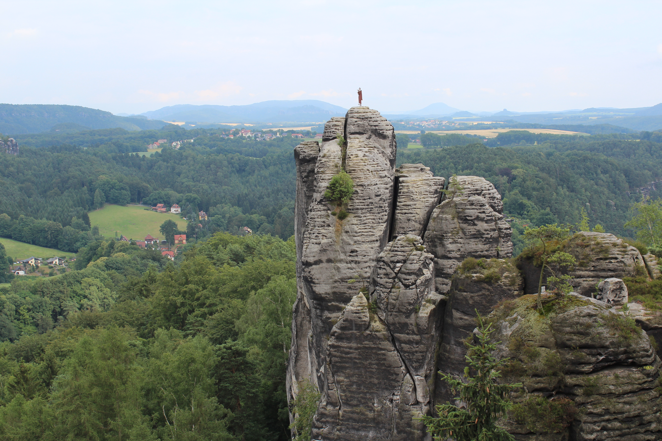 The stone formation "Mönch" at the end of the Felsenburg - Bastei (Sachsen) - Germany - 26 June 2011